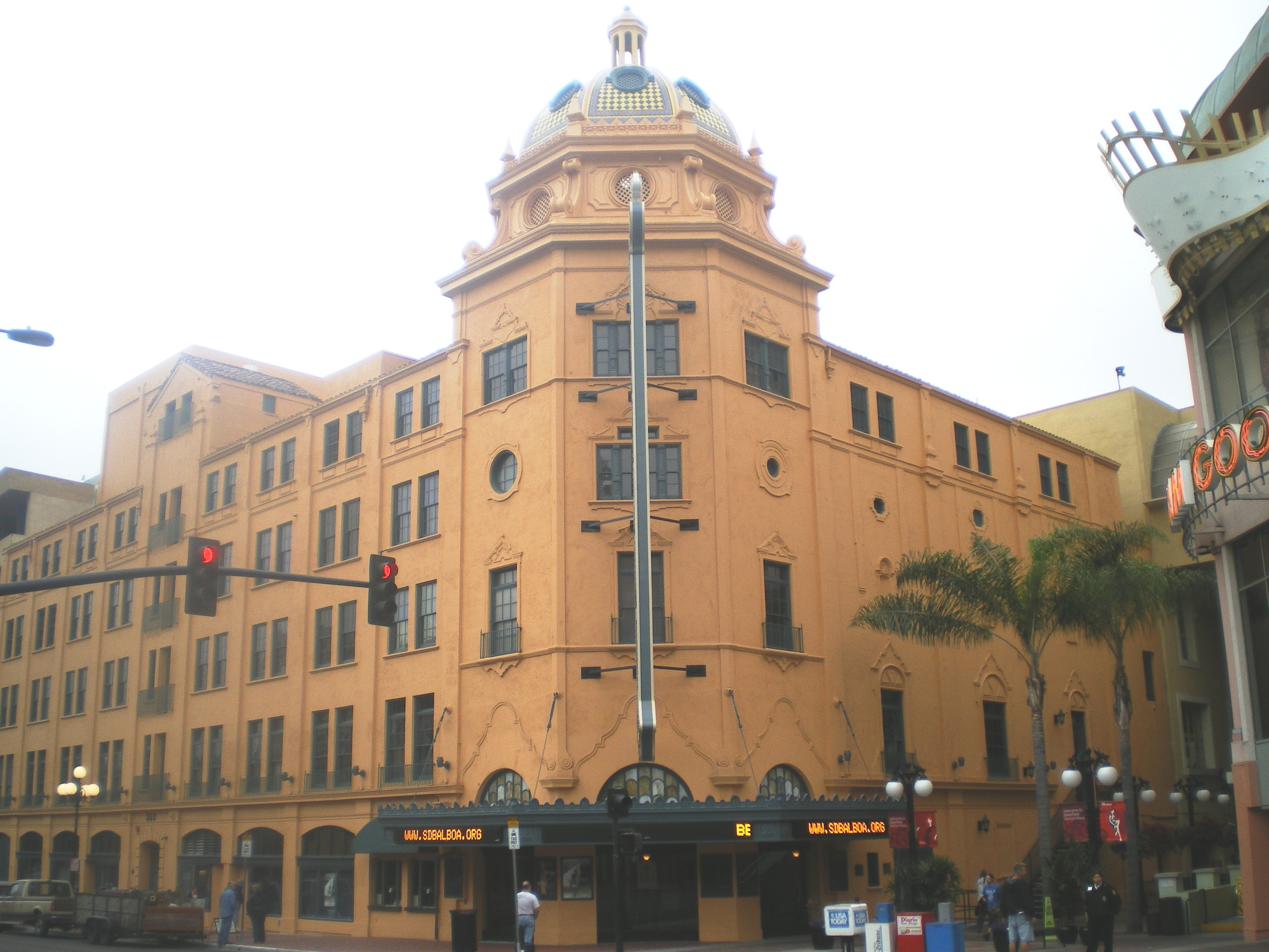 Balboa Theater, San Diego, California